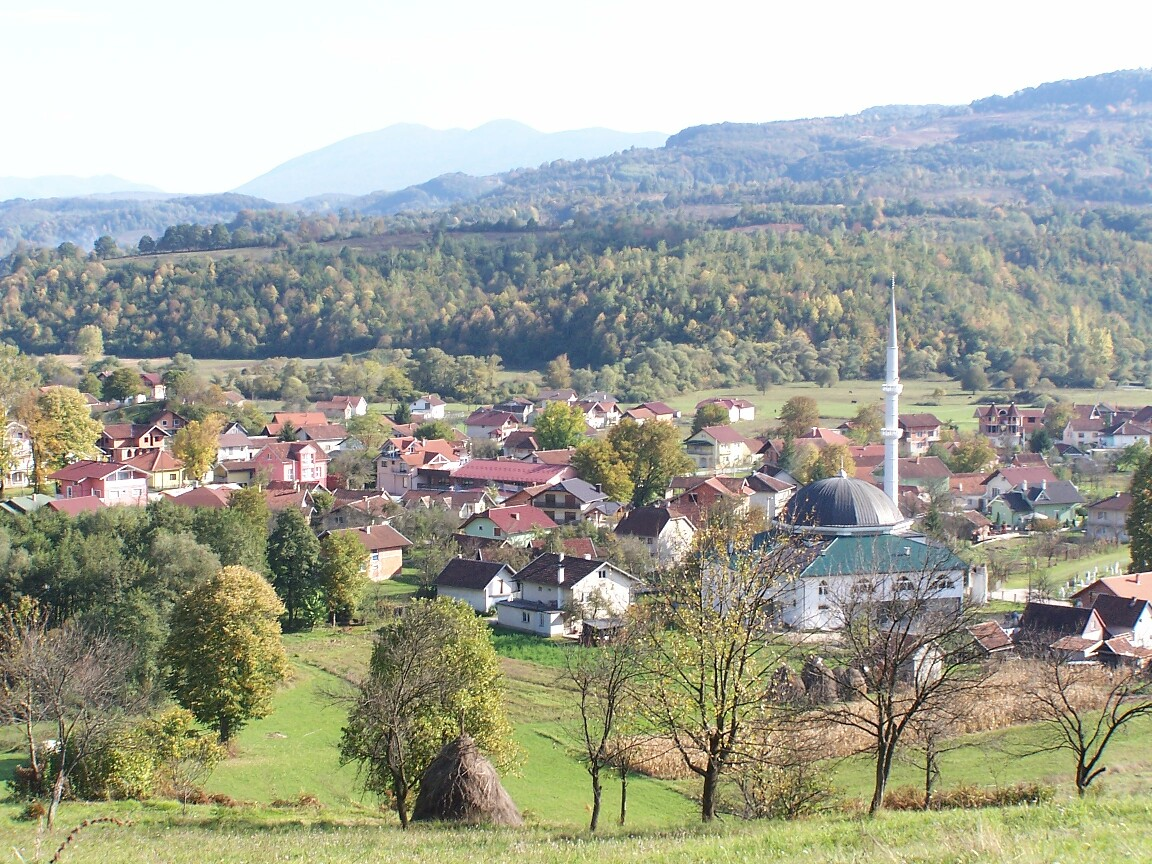 Sanica near Ključ, Bosnia and Hercegovina